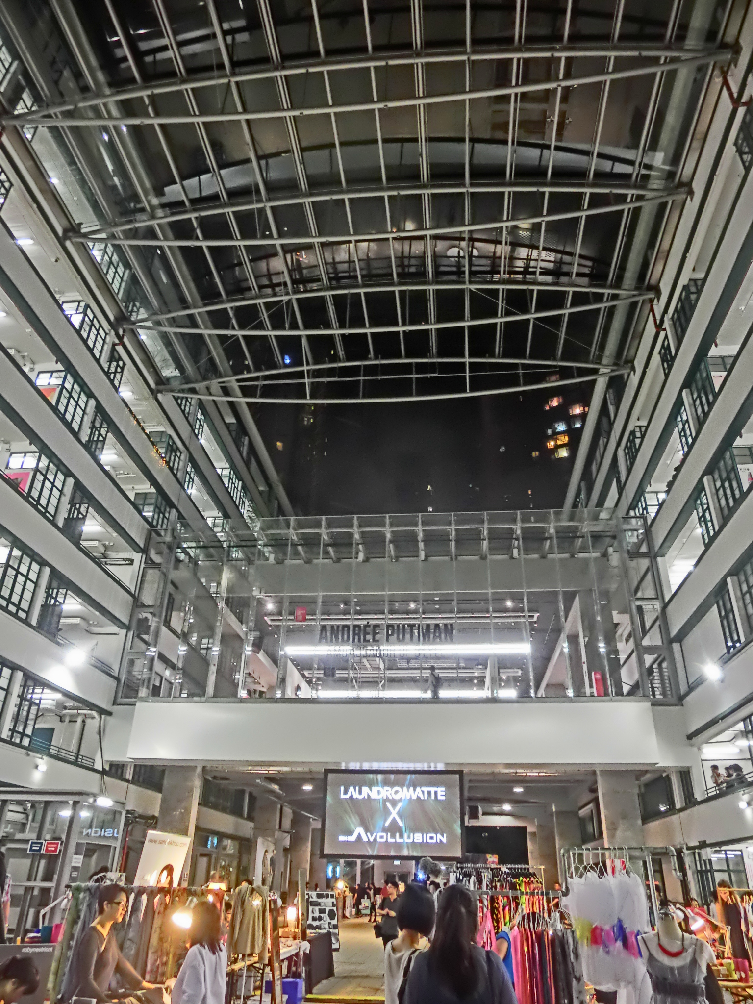 HK PMQ mall, Hollywood Road, Sheung Wan, Hong Kong